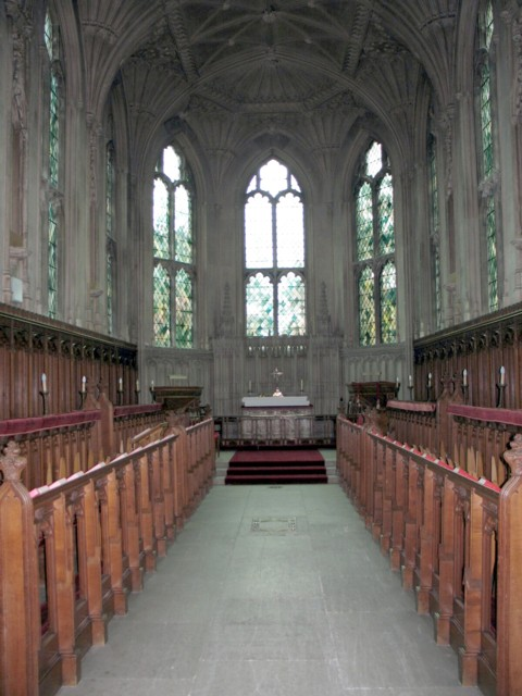 Ashridge House - the Chapel Ashridge House is one of the largest Gothic Revival country houses in England and is Grade I. listed. The House stands on the site of Ashridge Priory, a medieval abbey founded by the Brothers of Penitence. Following the Dissolution of the Monasteries, the building eventually became the private residence of Princess Elizabeth - later Elizabeth I. - and it was here that she was arrested in 1552 under suspicion of treason. In 1604 the priory was acquired by Sir Thomas Egerton. A descendant of his, the 3rd Duke of Bridgewater - he of canal-building fame - demolished the old buildings but did not live to see his plans for the House completed. His successor, the 7th Earl of Bridgewater, commissioned James Wyatt to build the present neo-gothic building as his home: it was completed in 1813. In 1921 the House was acquired by a trust established by Andrew Bonar Law, a former Prime Minister. In 1959 it became a management training college, and it continues in that role today with its own degree-awarding powers and an international reputation.